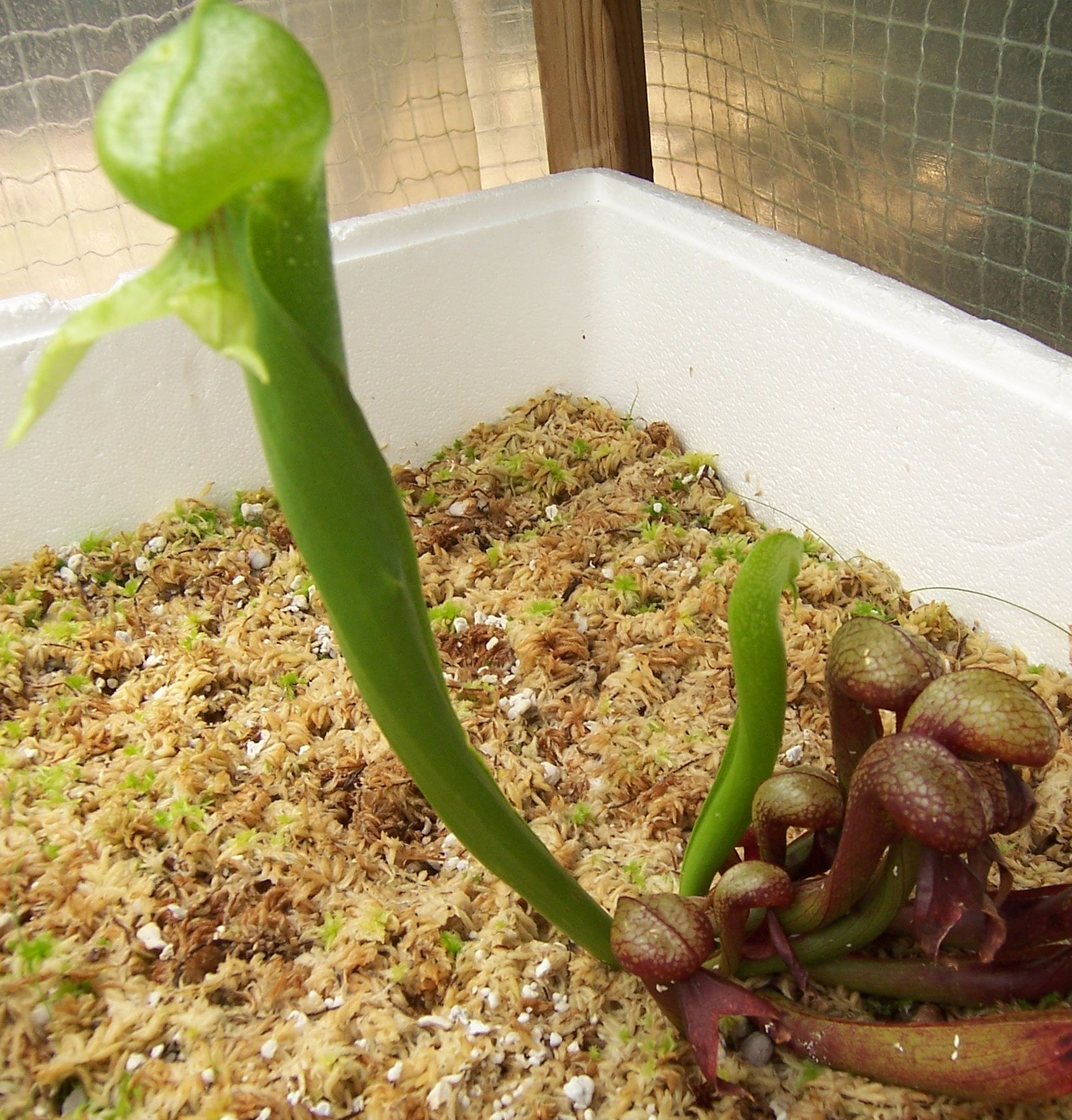 Darlingtonia californica. Photo was taken and made by an author of the Darlingtonia californica page.